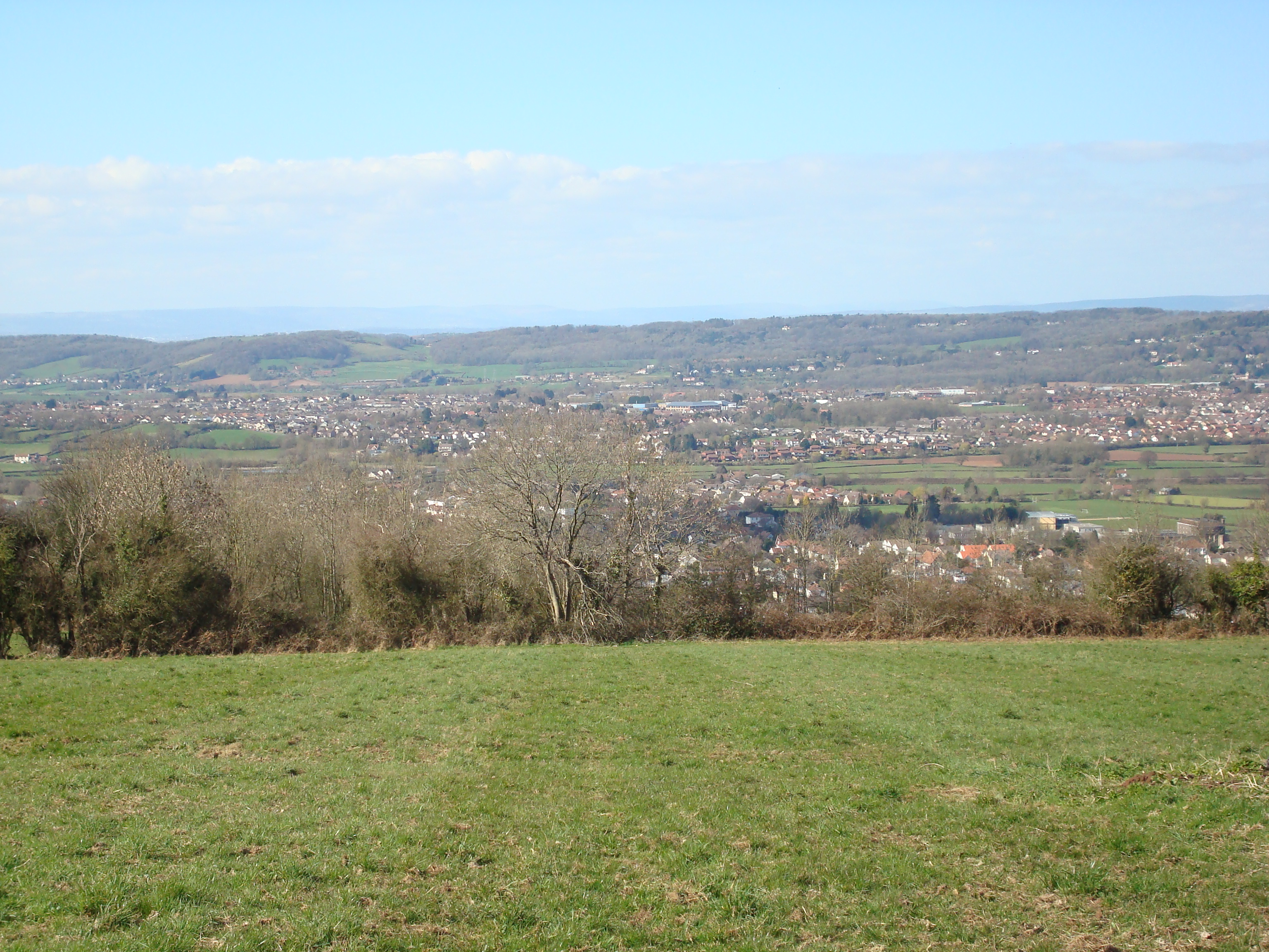 The town of Nailsea, and the adjacent village of Backwell